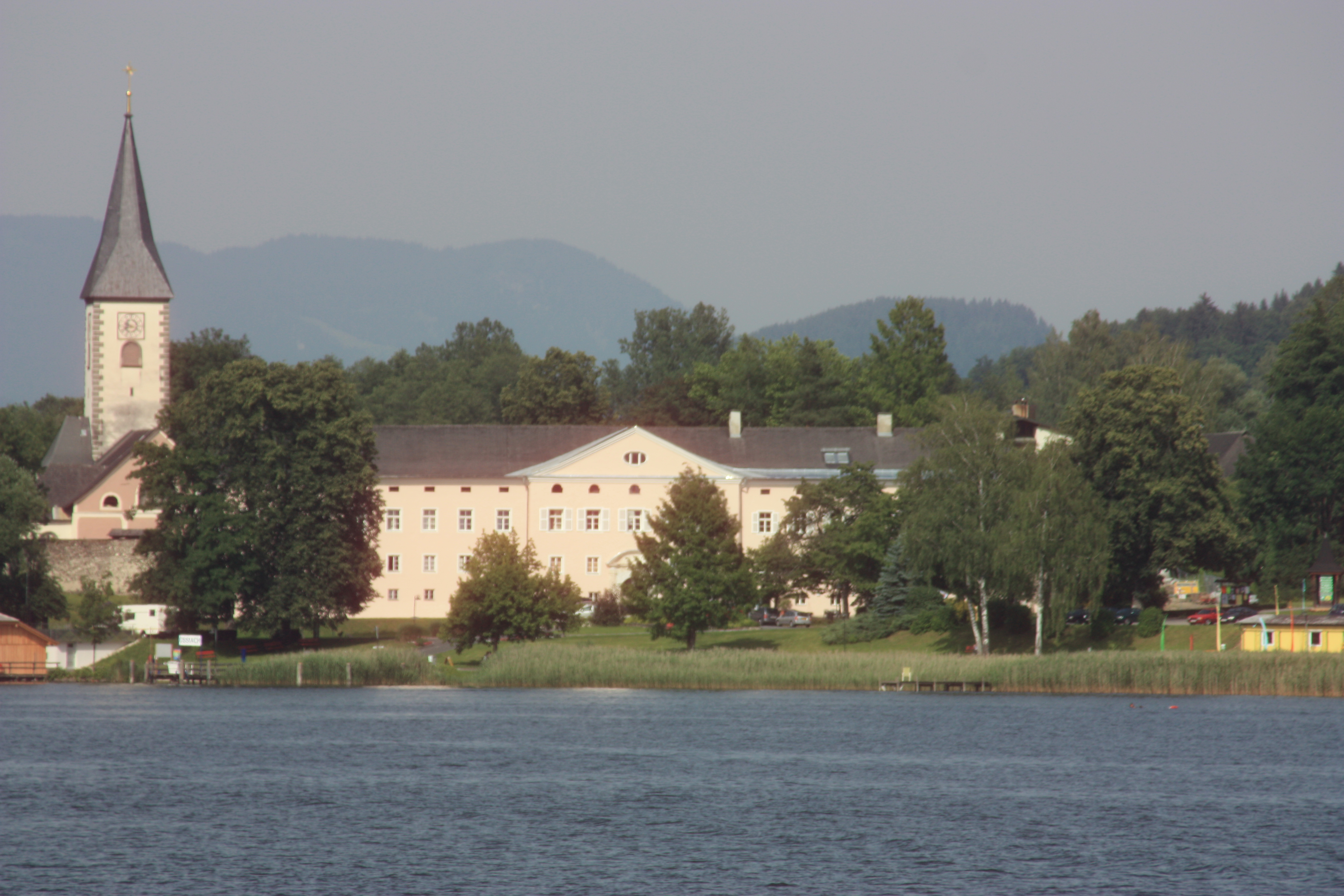 Monastery Ossiach - View from Lake Ossiach Community:Ossiach District:Feldkirchen State:Carinthia Country:Austria